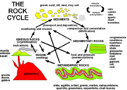 The Rock cycle